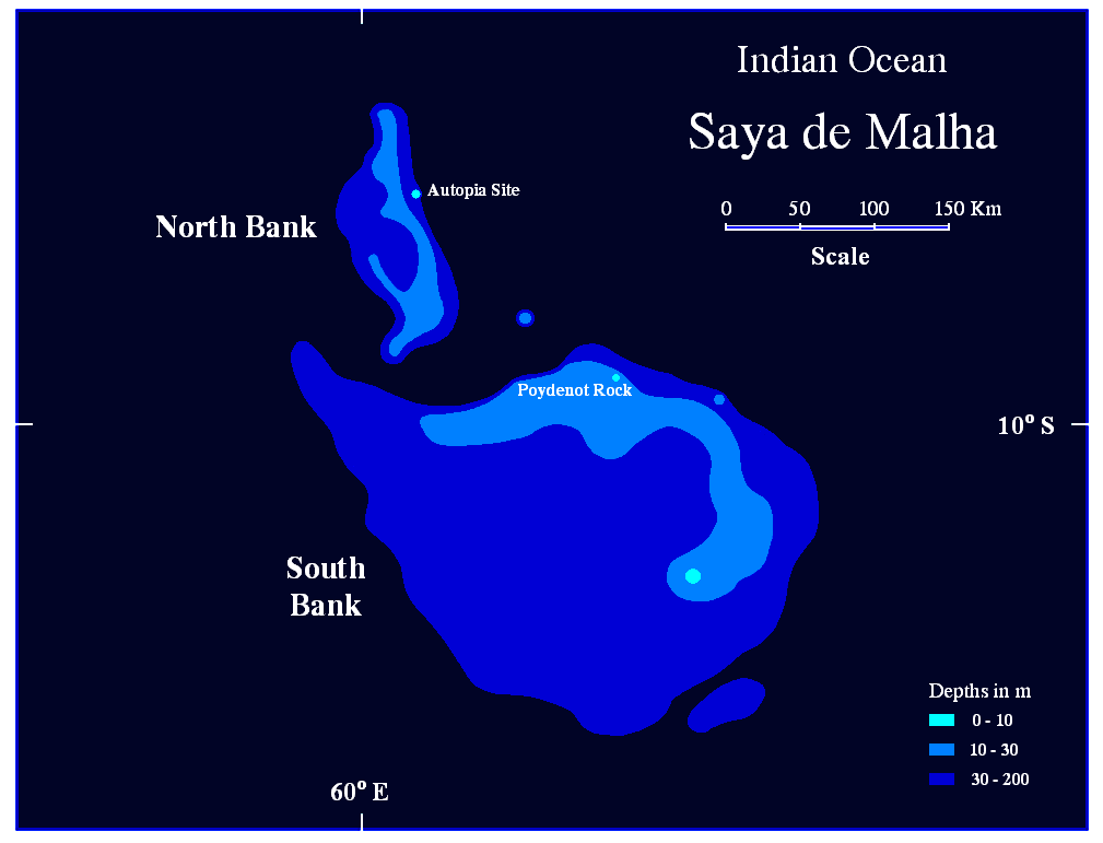 Shoal map